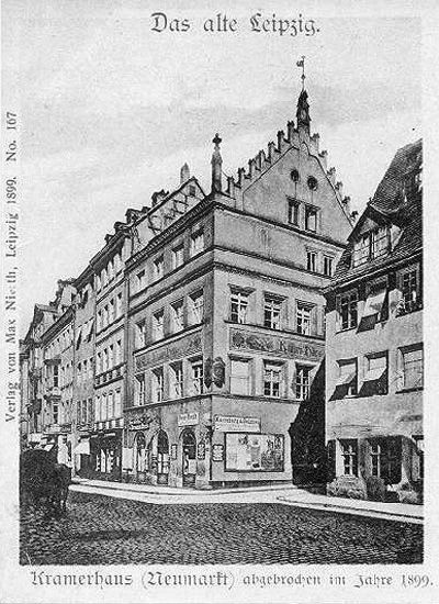 Kramer House in Leipzig, Neumarkt 31 Kupfergasse corner, the house was canceled in 1899